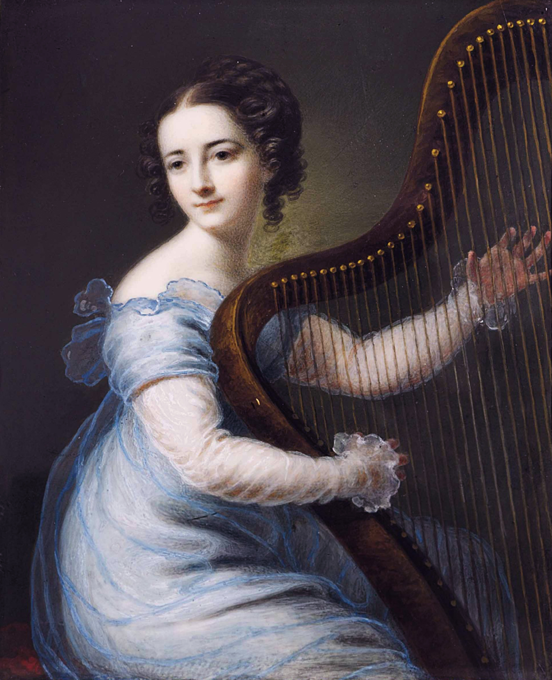 portrait of a woman playing the harp, seated on a red-upholstered stool, wearing a blue gauze dress with white underdress, her dark hair upswept in a plait and dressed in ringlets on ivory 11.8 x 9.6 cm signed b.l.: Schmeidler